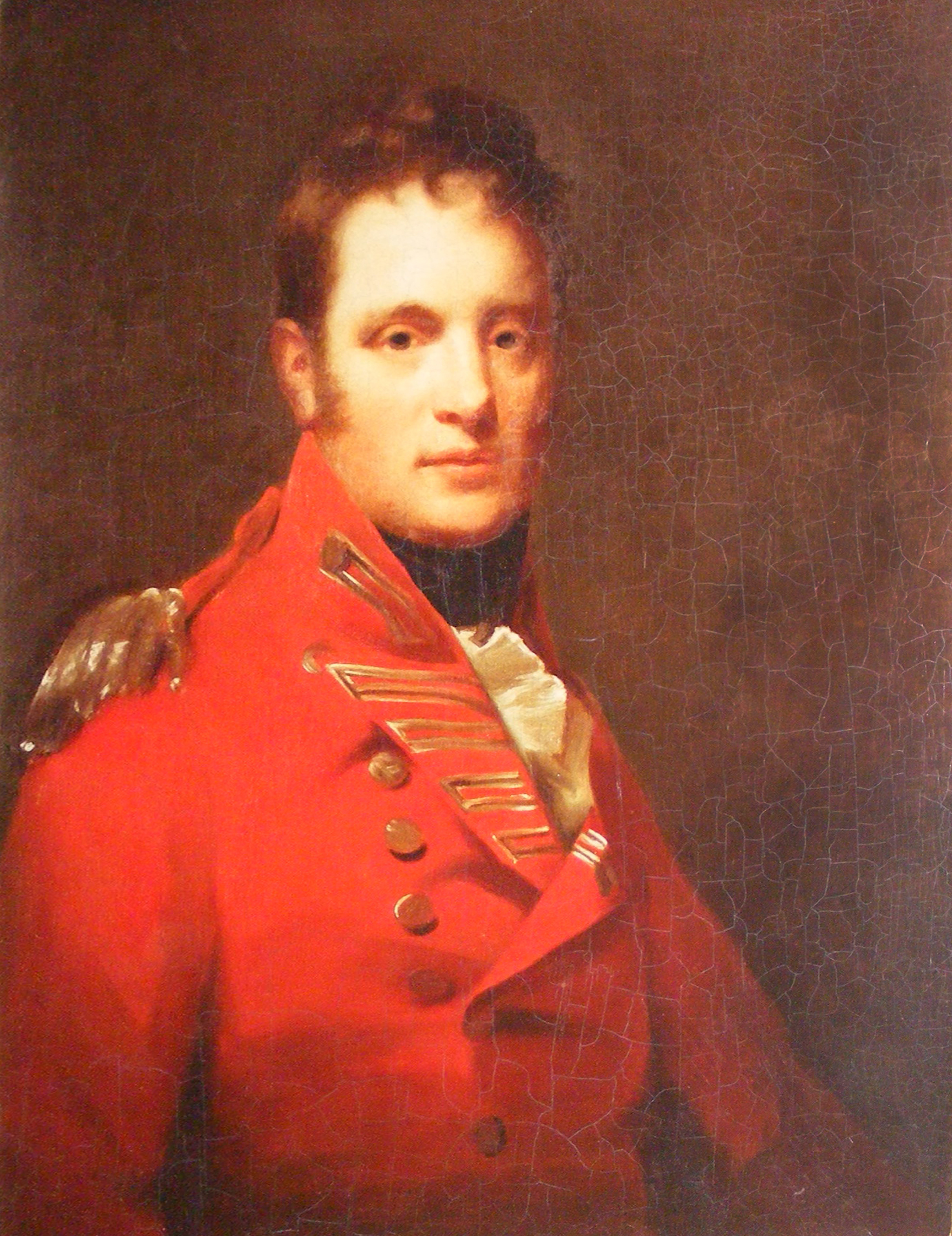 Painting of Colonel Alexander Campbell of Possil by Sir Henry Raeburn.